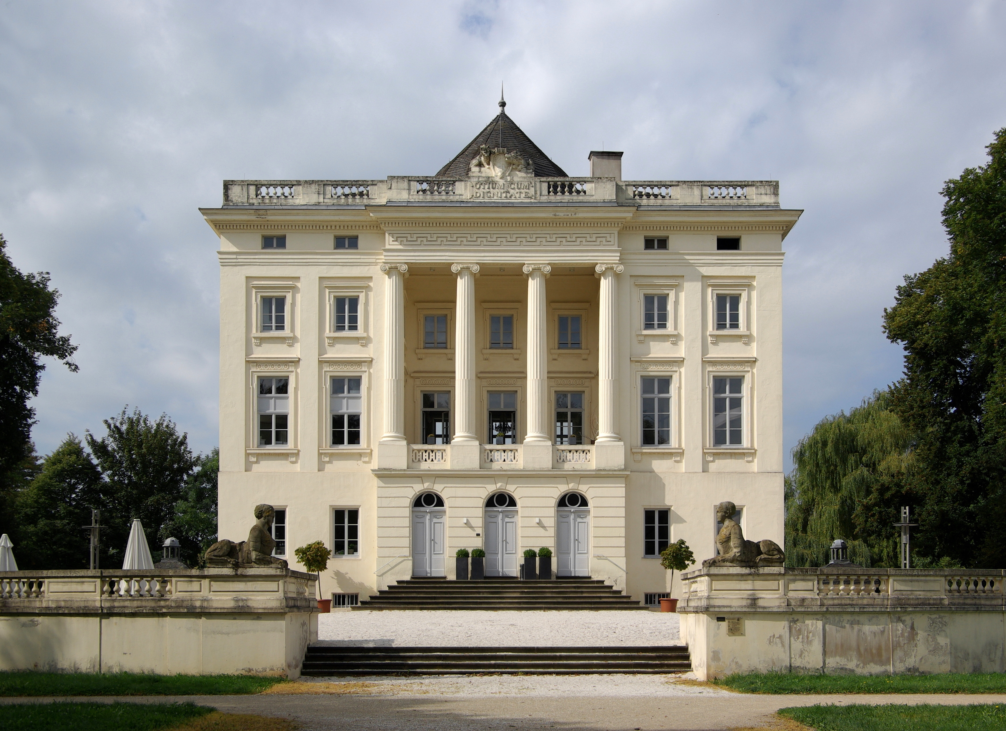 Germany, Trier, Monaise palace, build 1779-83, planning by François Ignace Mangin for Philipp Franz Wilderich Nepomuk von Walderdorf. Best preserved example of a villa suburbana of the late 18. century in Germany.